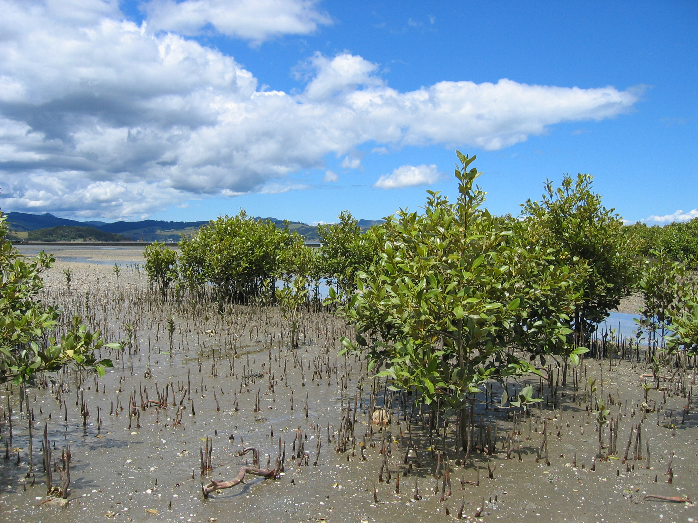 Description:Avicennia resinifera, Coromandel 2005 Author: Michael Beckmann